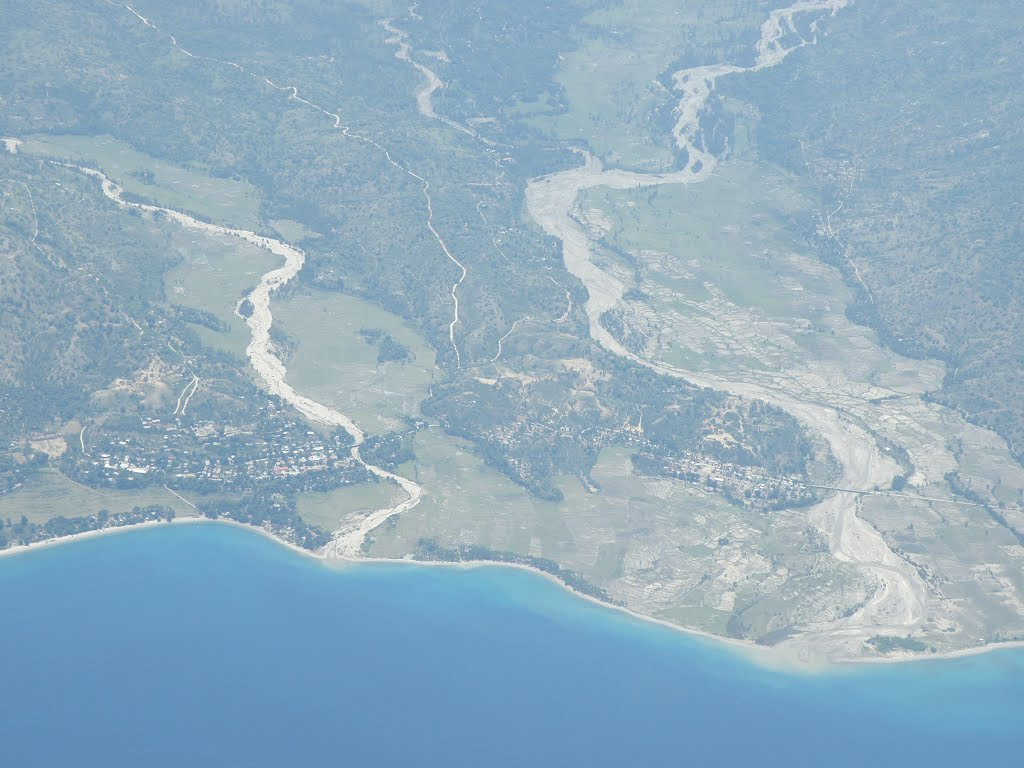 Complex braided stream view at Laga town (left), Lequinamo River (middle) and Uaimuhi River (right)